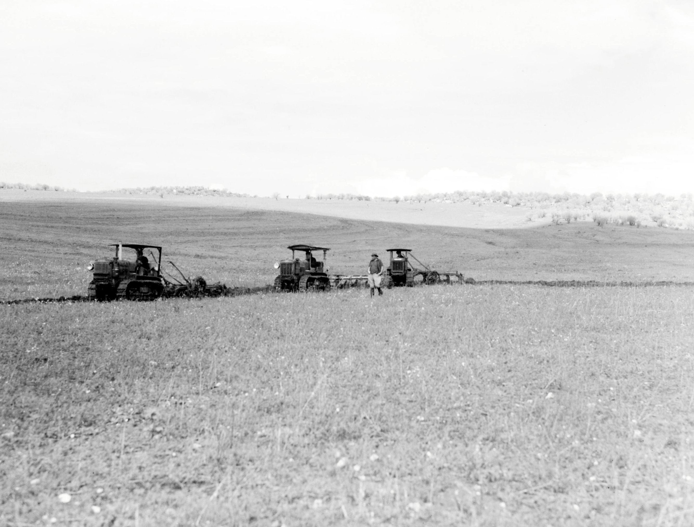 Youth Aliya - kibbutz alonim Members of the youth aliya settlement at sheikh abreik ploughing fields at the jezreel valley in preperation for the establishment of kibbutz alonim.